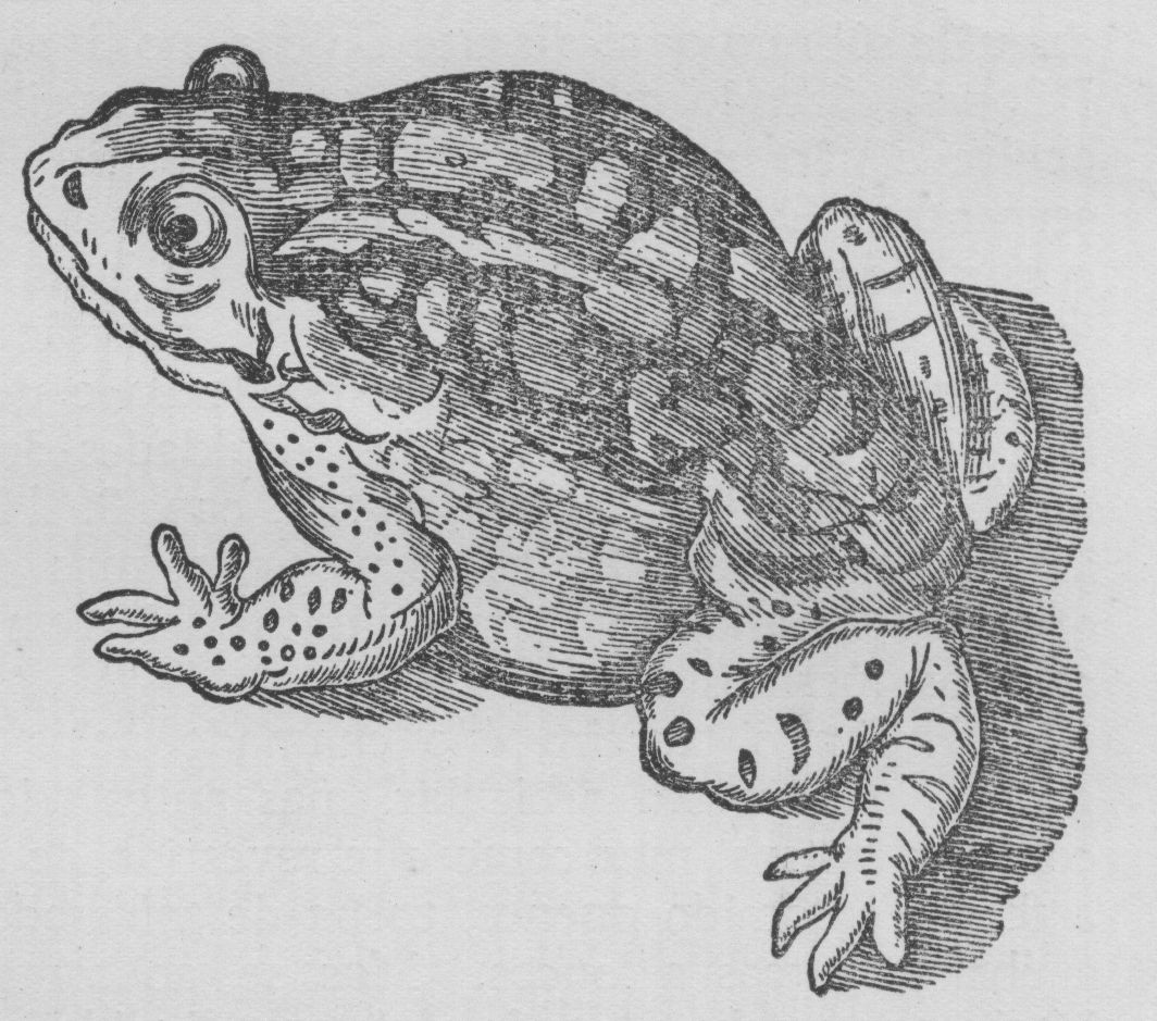 Ilustration of Historia Naturalis Brasiliae, of Guilherme Piso (Guilielmi Pisonis), dedicate to Johann Moritz Fürst von Nassau-Siegen. (pt: sapo cururu)